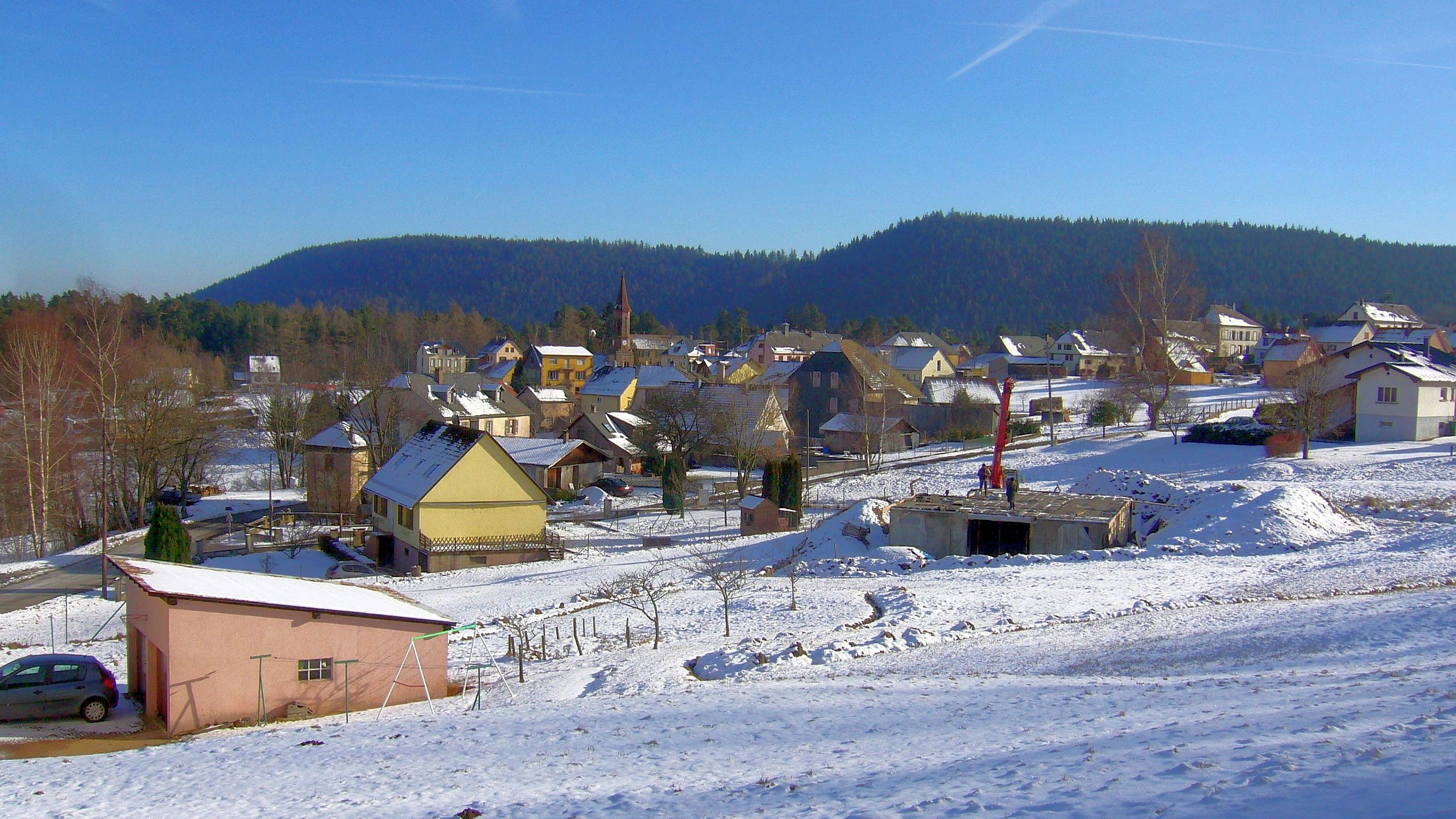 Aubure 039.JPG